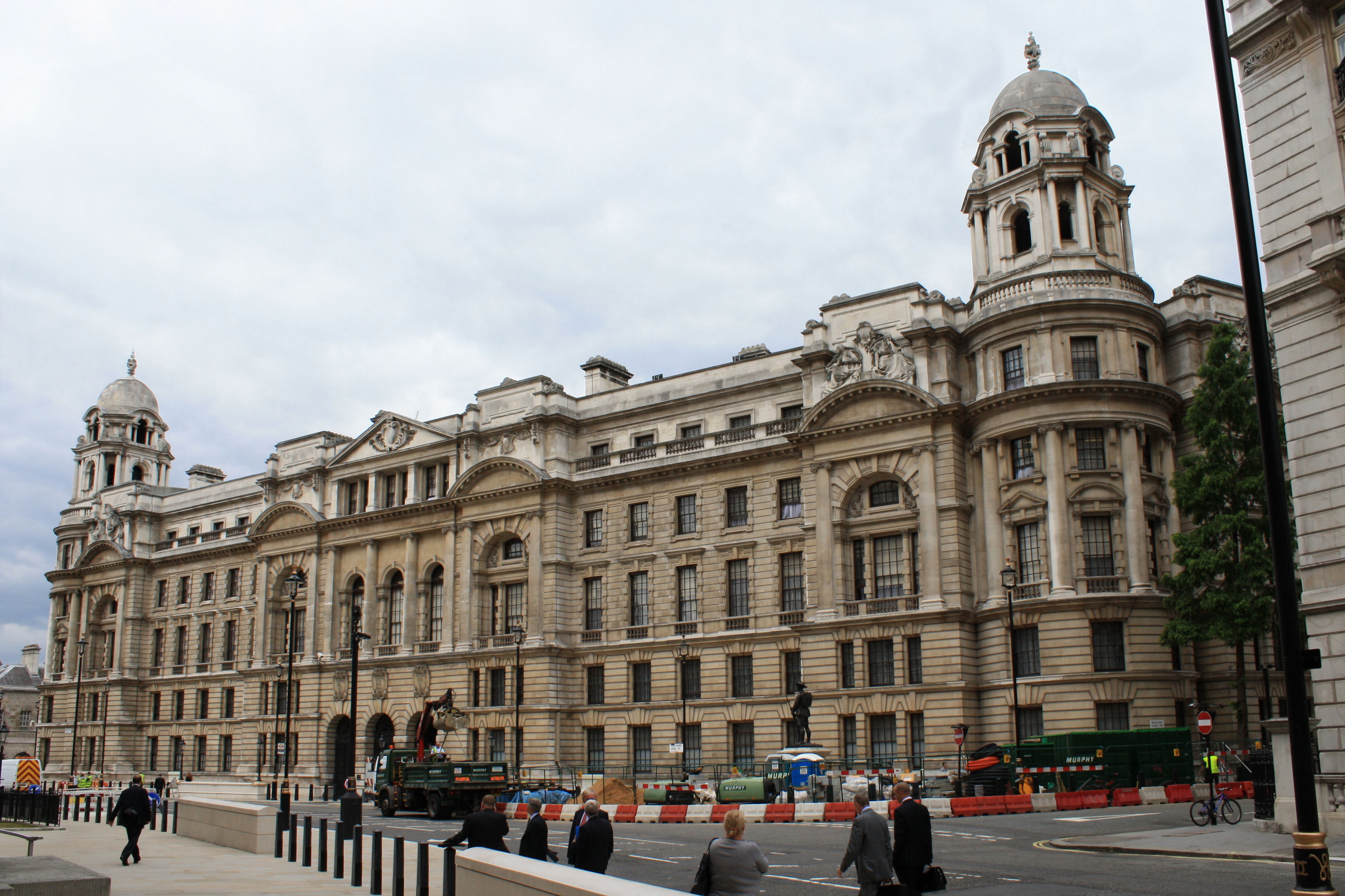 This is the view looking northwest along Horse Guards Avenue. The War Office itself was abolished in 1964 and the building is now occupied by its successor, the Ministry of Defence. The design of the building was the subject of a competition in the mid 1890s. The judge was the assistant surveyor for London, John Taylor (1833-1912). He declared the winner to be the Scottish architect, William Young, who started work in 1898. Unfortunately, Young died two years later before the design was complete. John Taylor himself, with the assistance of Young's son, Clyde, completed the job and building was completed in 1906.